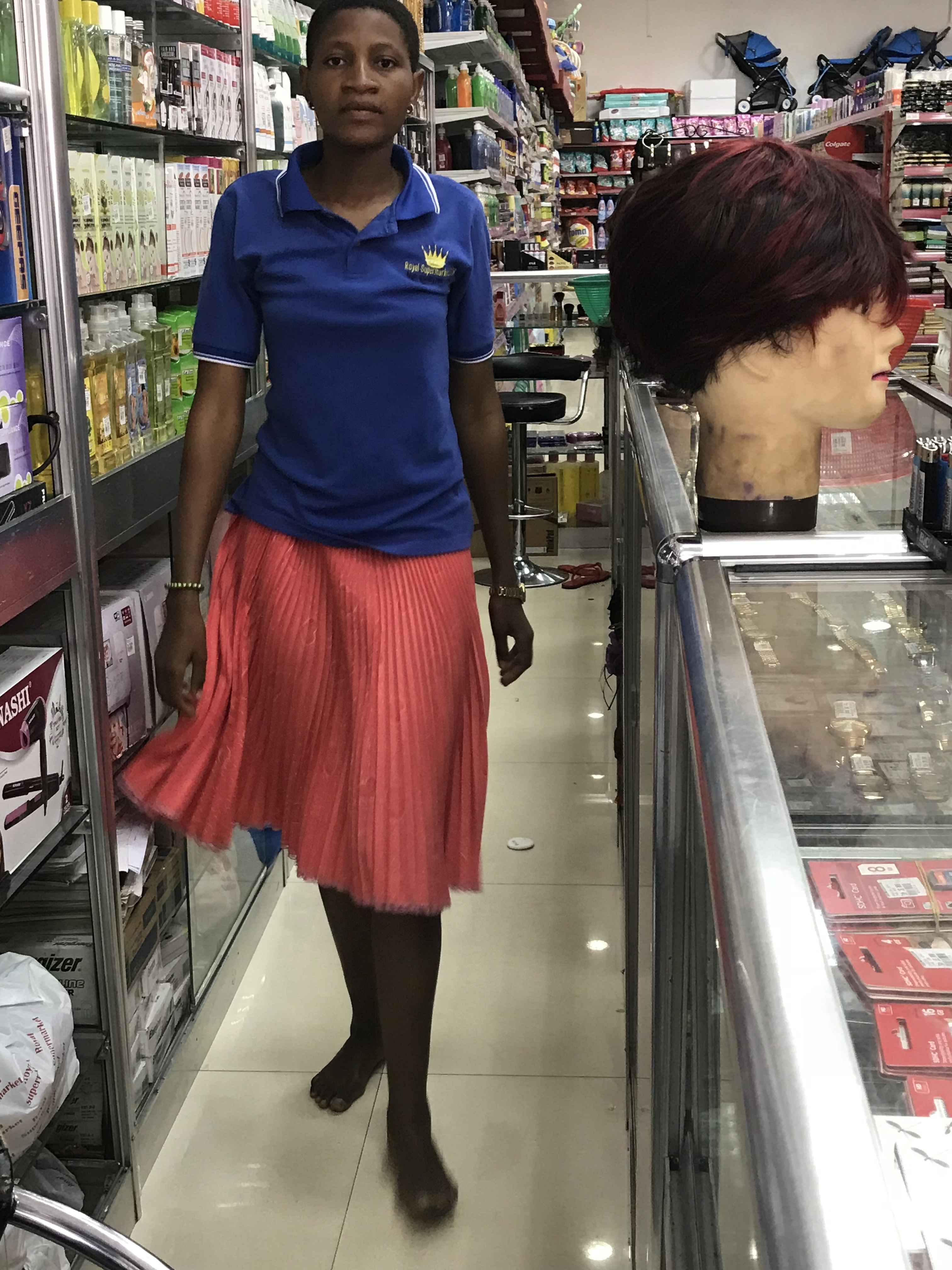 Workers at a local Supermarket in Kahama town in the region of Shinyanga in northern Tanzania. The Supermarket’s name is Royal Supermarket. Considered the largest in the lake zone area in Tanzania. It’s operated by a local Sukuma business man. This is an image of "African people at work" from Tanzania